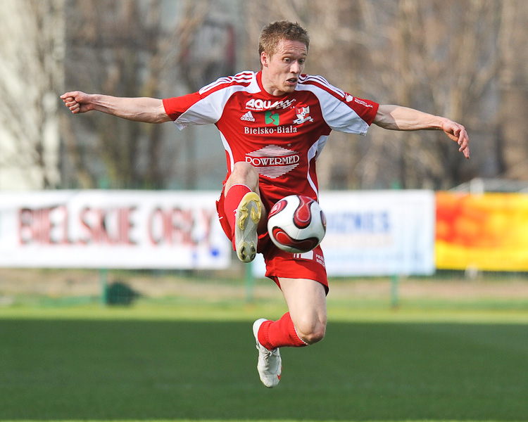 Piotr Malinowski – Polish midfielder.